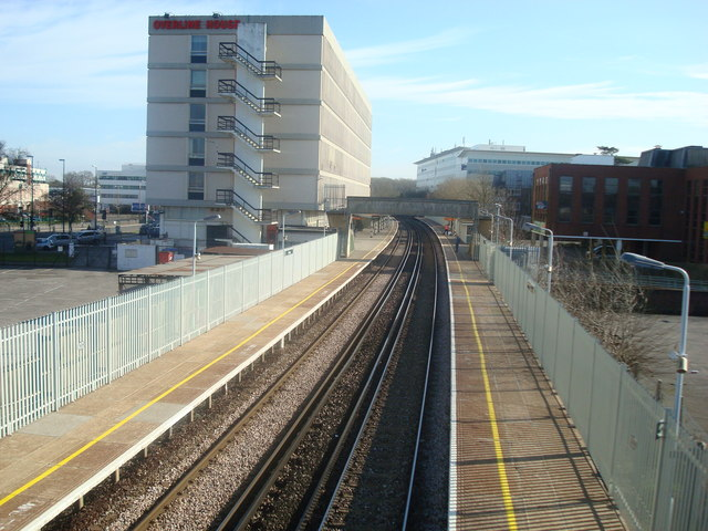 View of Crawley Railway station from footbridge